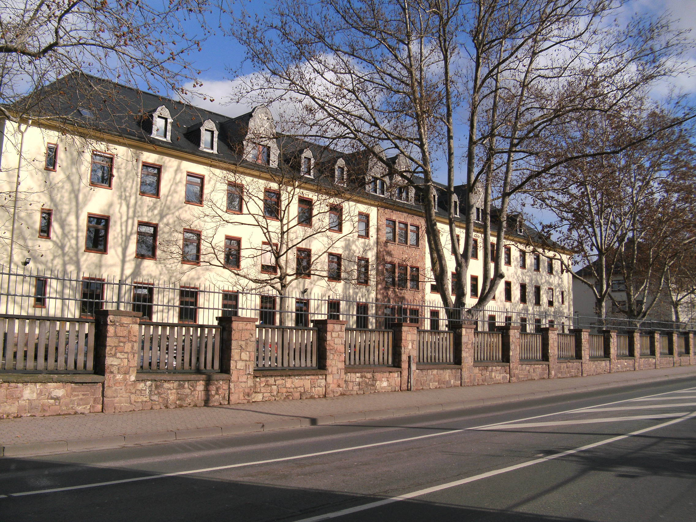 Former Rose Barracks of the US Army at Alzeyer Straße in Bad Kreuznach